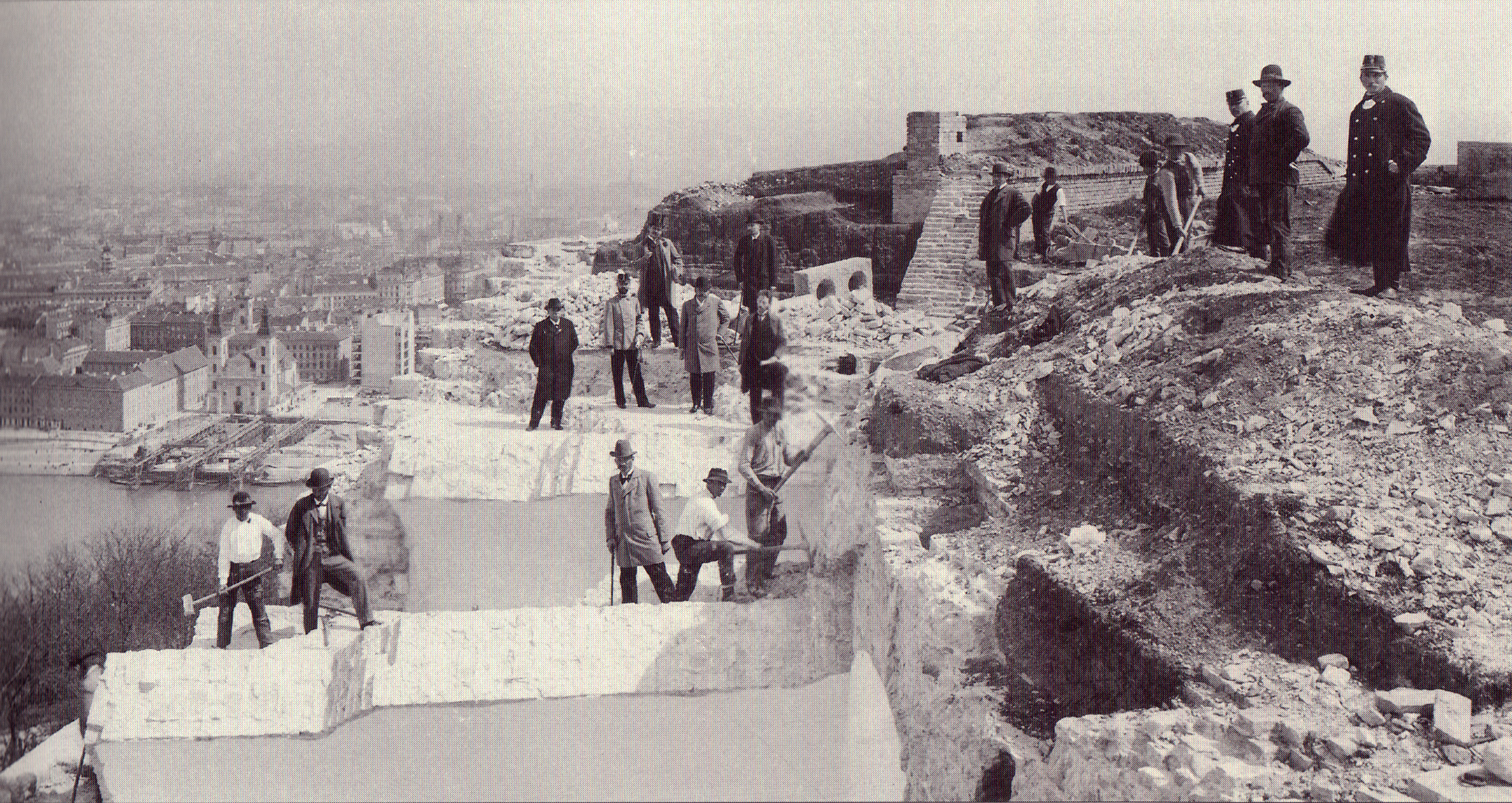 Partial demolition of the Citadel of Buda in 1897-99, on the Gellért Hill. The initial phase of the construction works of the future Elisabeth Bridge can be seen in the background, at left, beside the Downtown Parish Church.